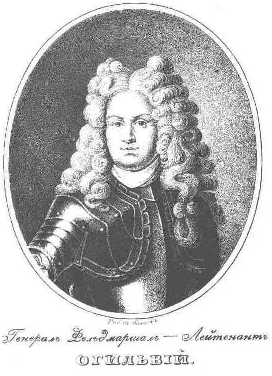 Georg_Benedict_Ogilvy.jpg